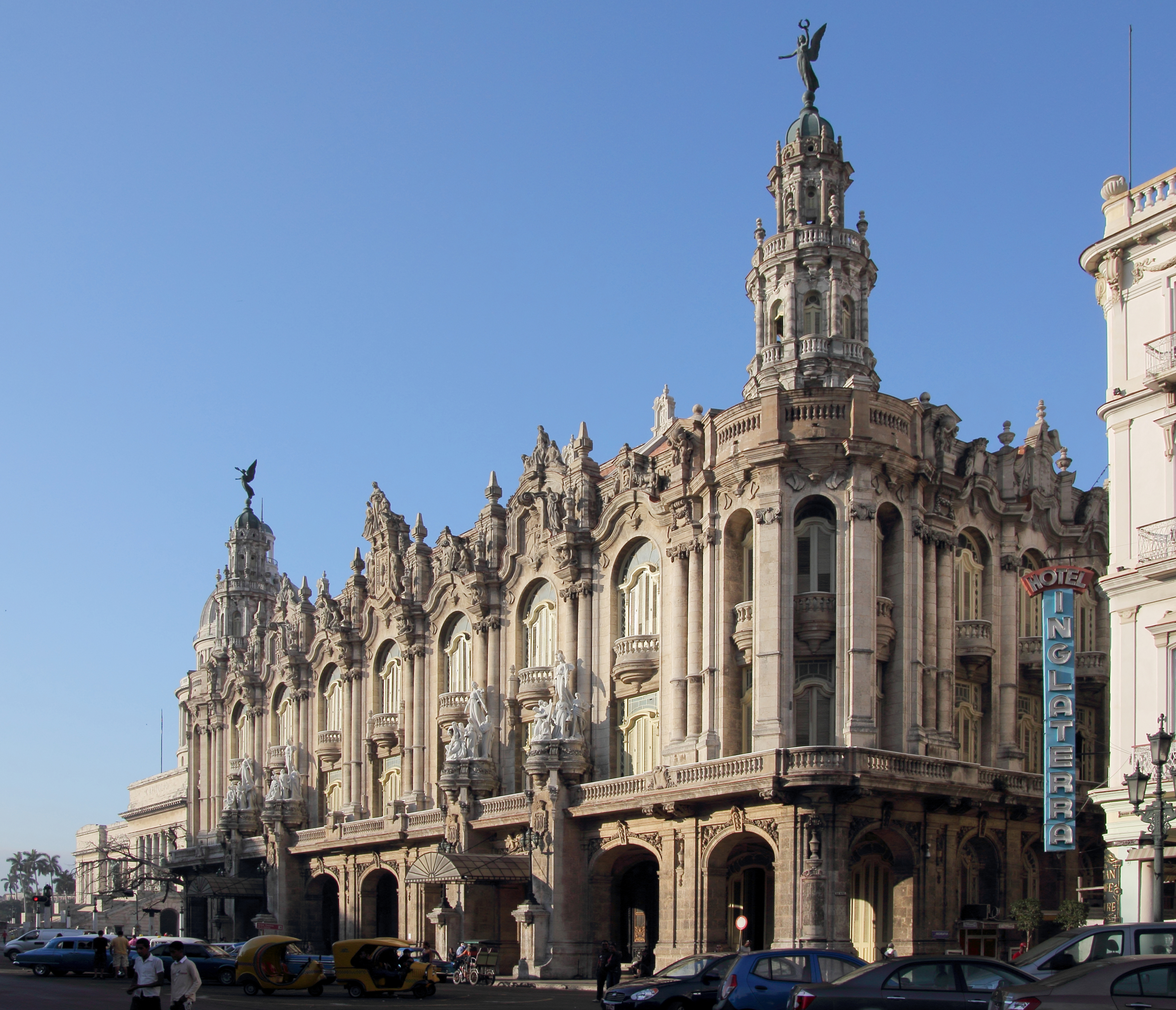 Grand Theathre of Havana